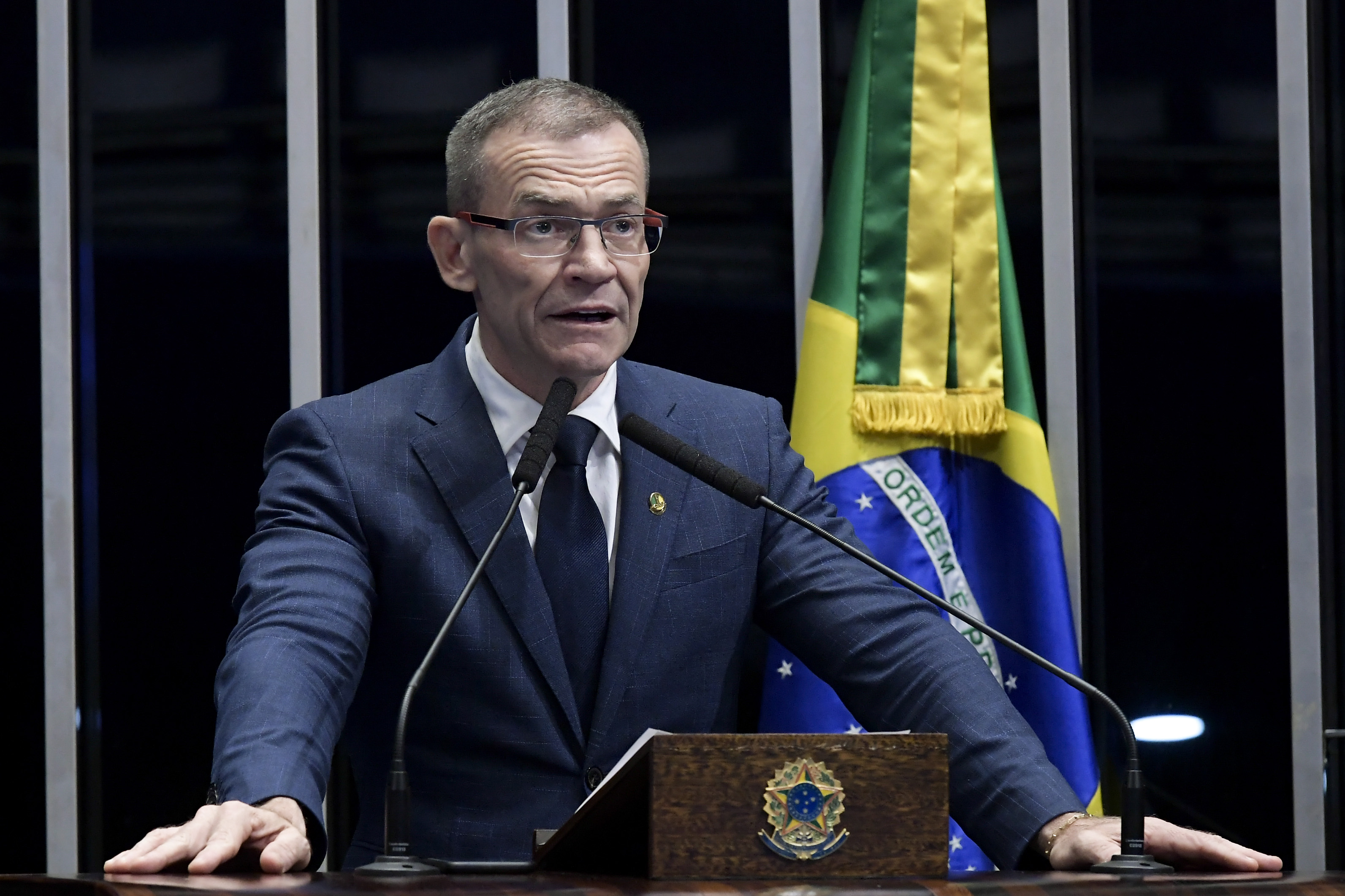 Fabiano Contarato discursando no Plenário do Senado Federal do Brasil, em maio de 2019.